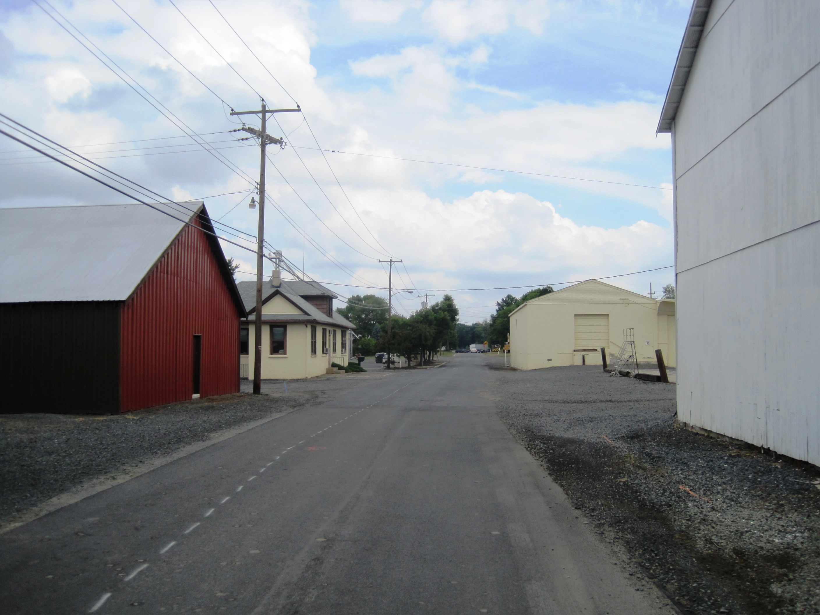 Photo of Cranbury Station, New Jersey, an unincorporated community within Cranbury Township. Photo taken along northbound Cranbury Station Road between the New Jersey Turnpike overpass and Station Road (County Route 615).